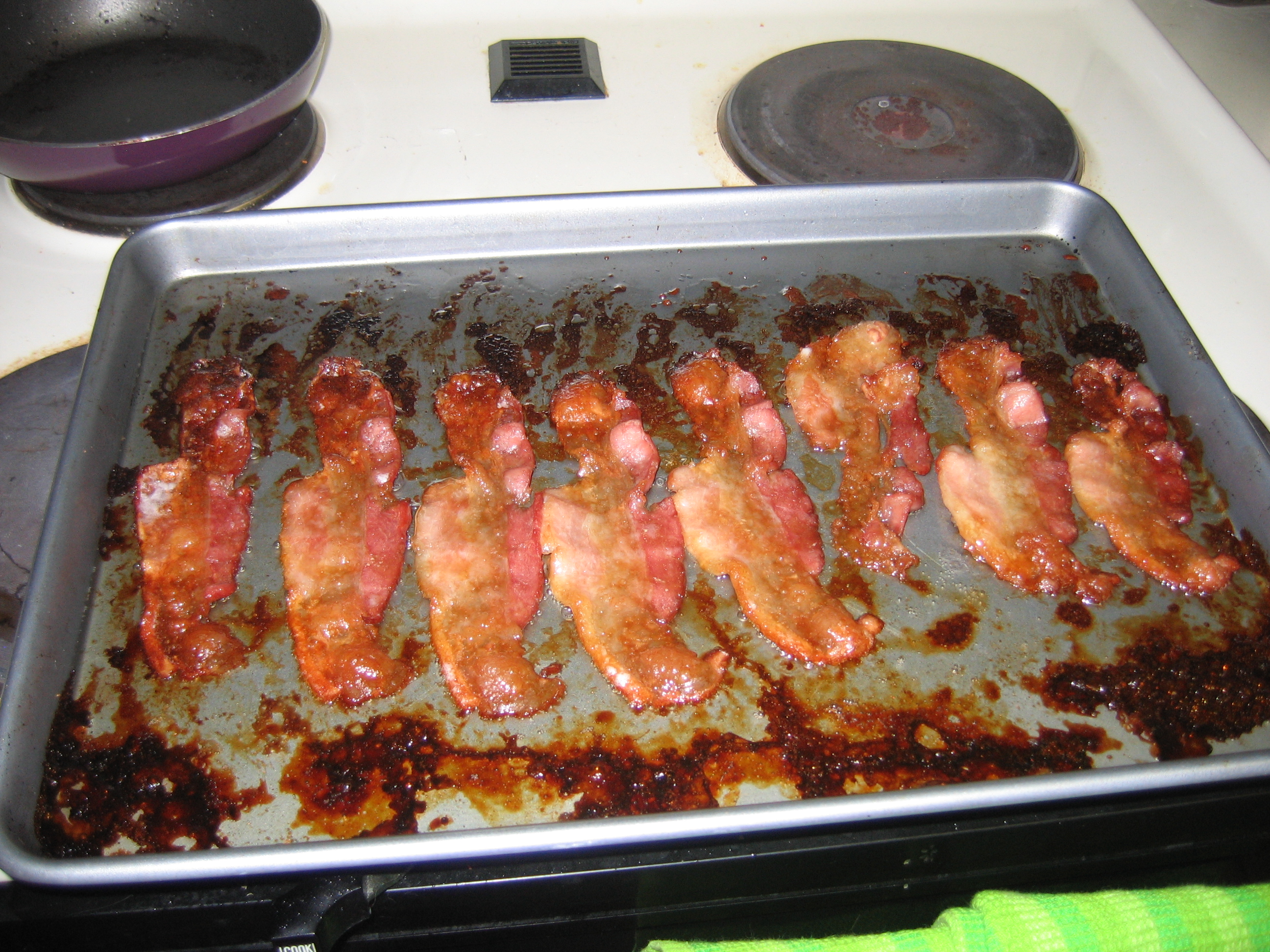 Pig candy from